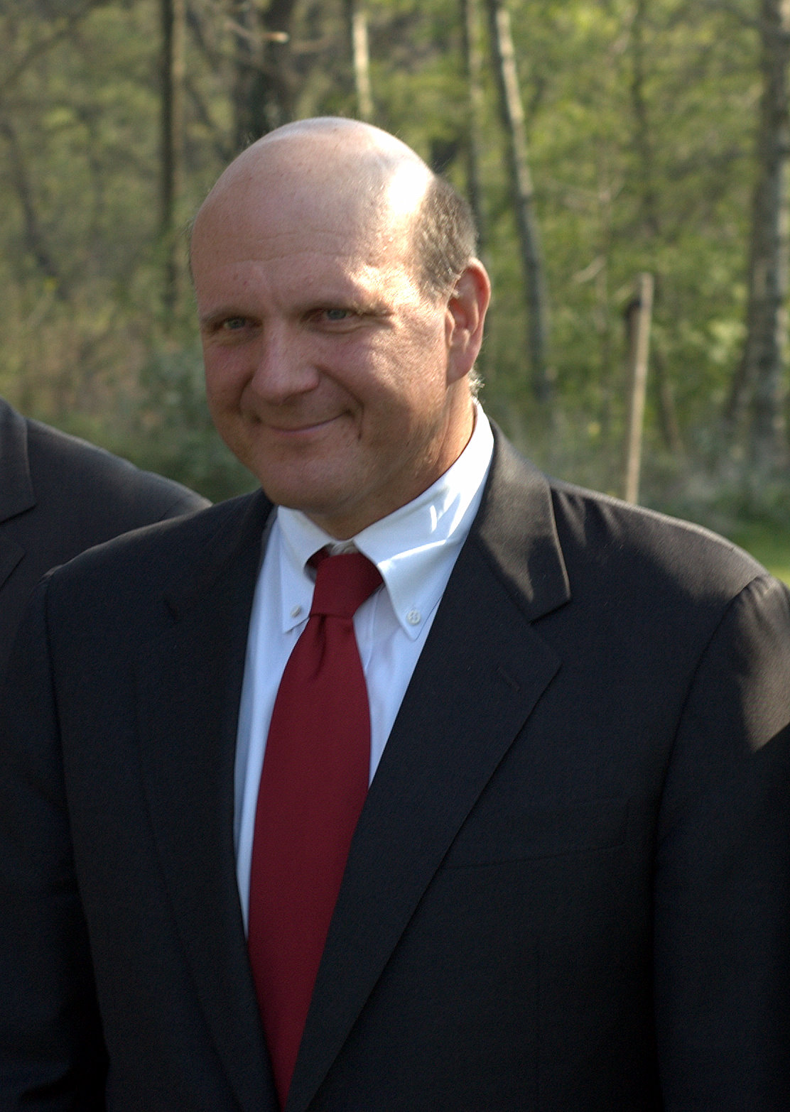 Steve Ballmer, CEO of Microsoft. Camera: Nikon D50 using Nikkor kit lens (18-55mm)